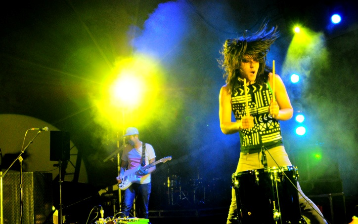 Perth International Arts Festival 2010